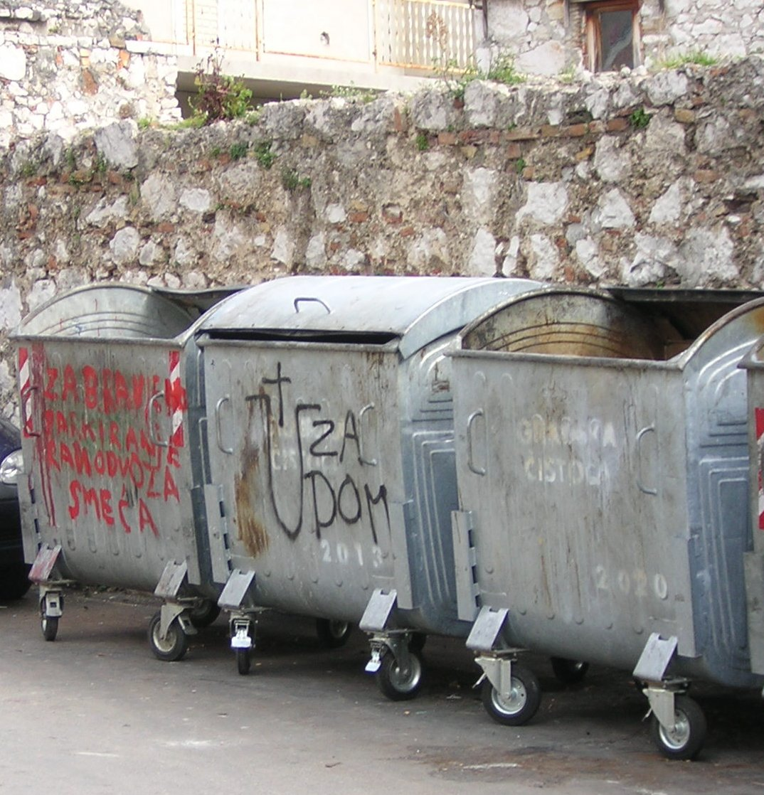 A graffiti in Croatia, showing a symbol of Ustaše together with their slogan "Za dom".